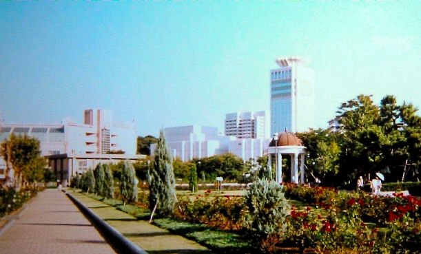 A view of Yokosuka, Kanagawa, Japan from Verny Park.